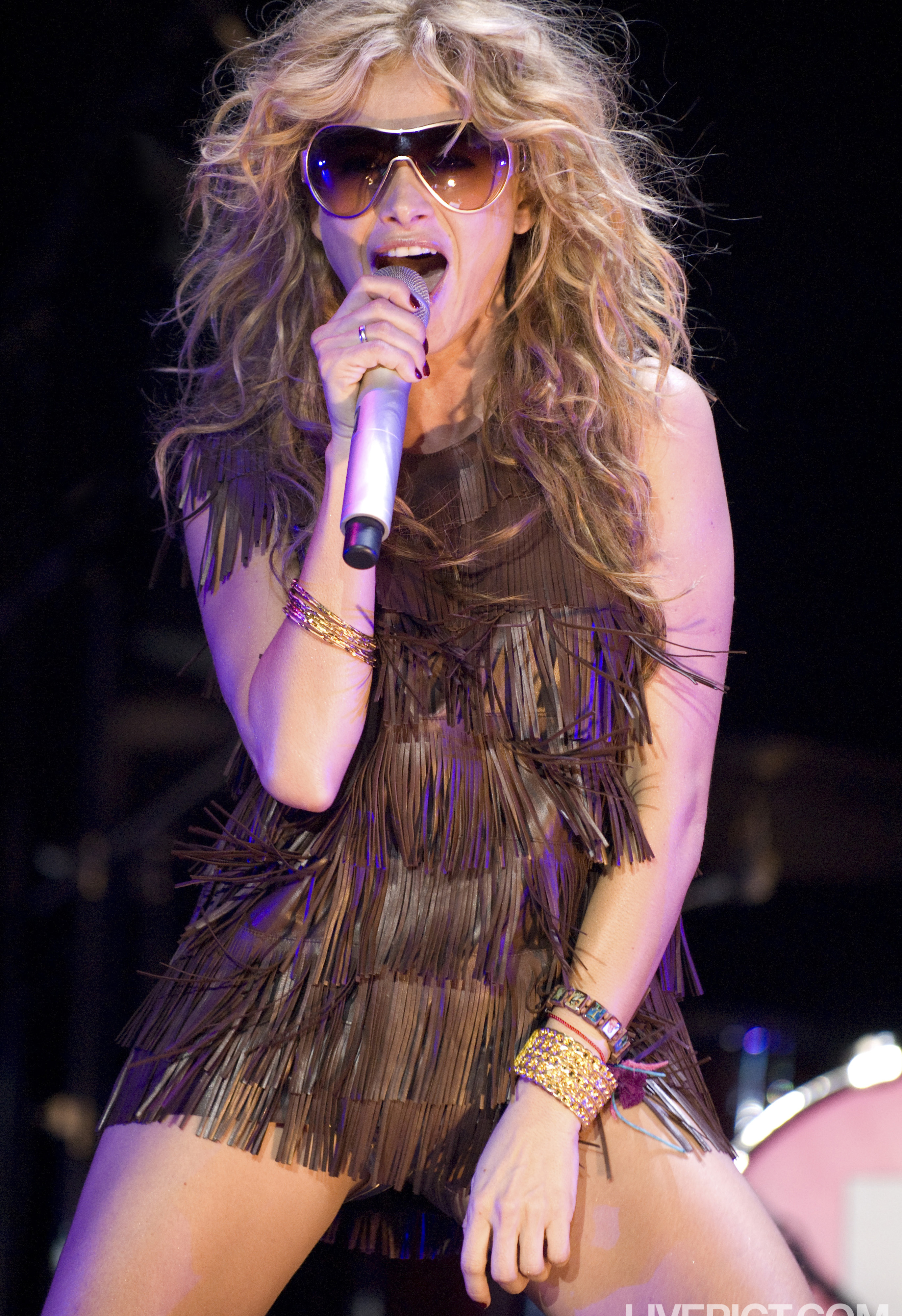 Paulina Rubio. Performing a live concert in the Asics Music Festival, Barcelona, October 2007.